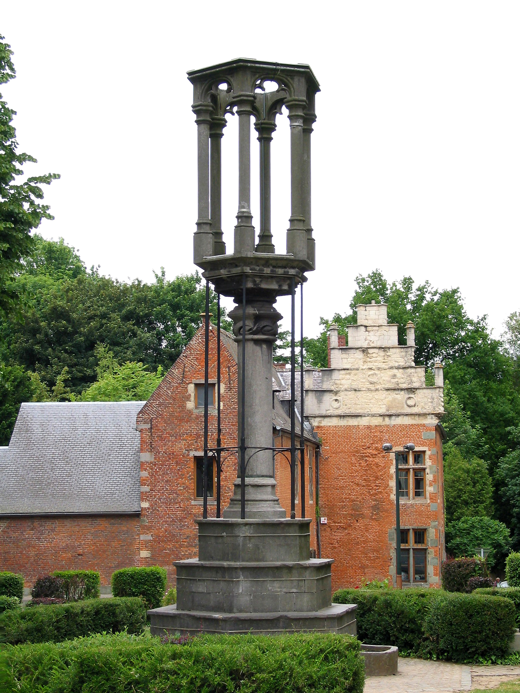 Braine-le-Château (Belgium), the Taksmaster house and the pillory.